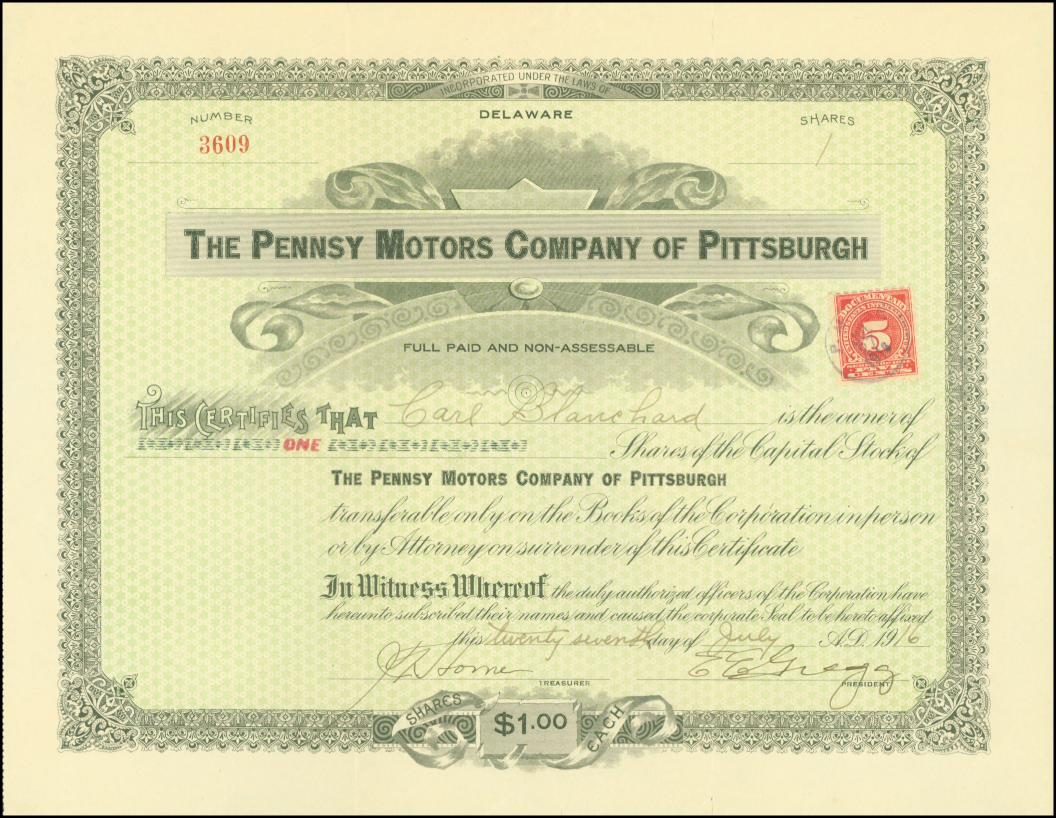 Share of the Pennsy Motors Company, issued 27. July 1916